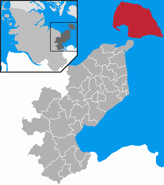 This map shows the area of the Stadt (town) Fehmarn in the Kreis (district) Ostholstein, Schleswig-Holstein, Germany.